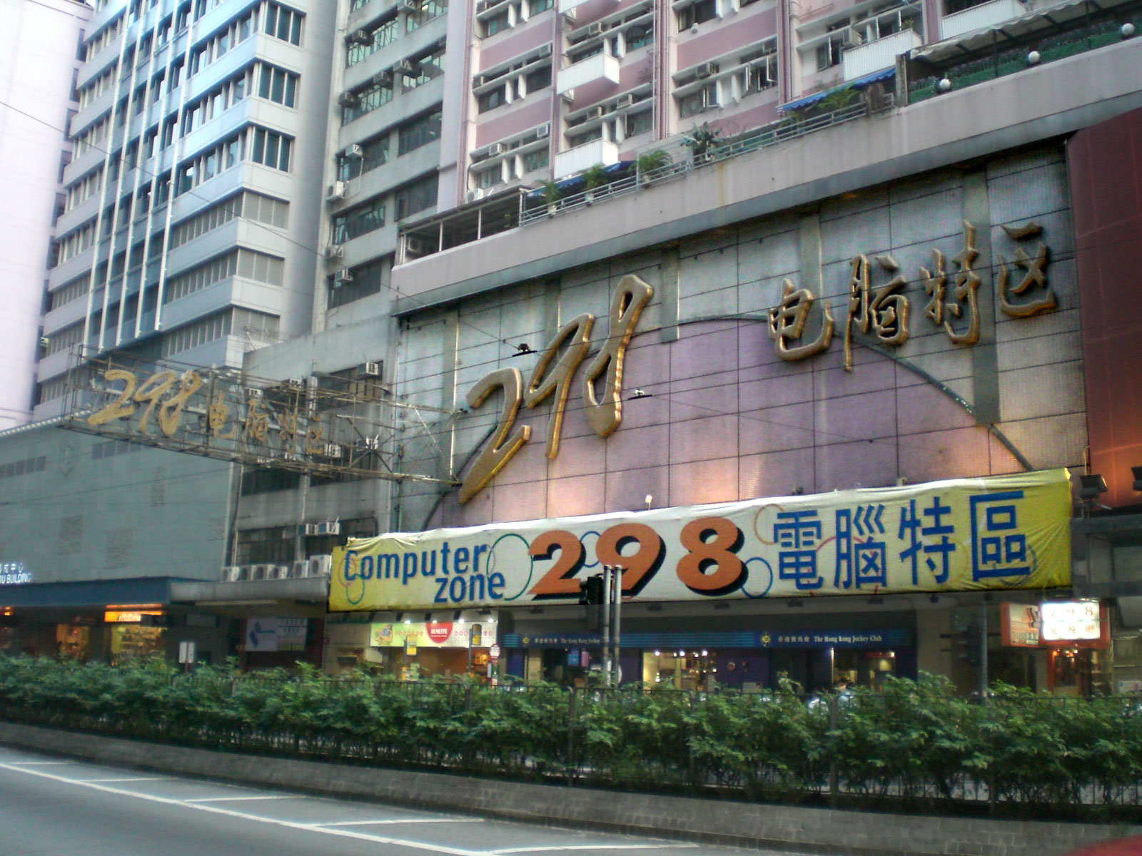 灣仔軒尼詩道zh-yue:灣仔298電腦特區